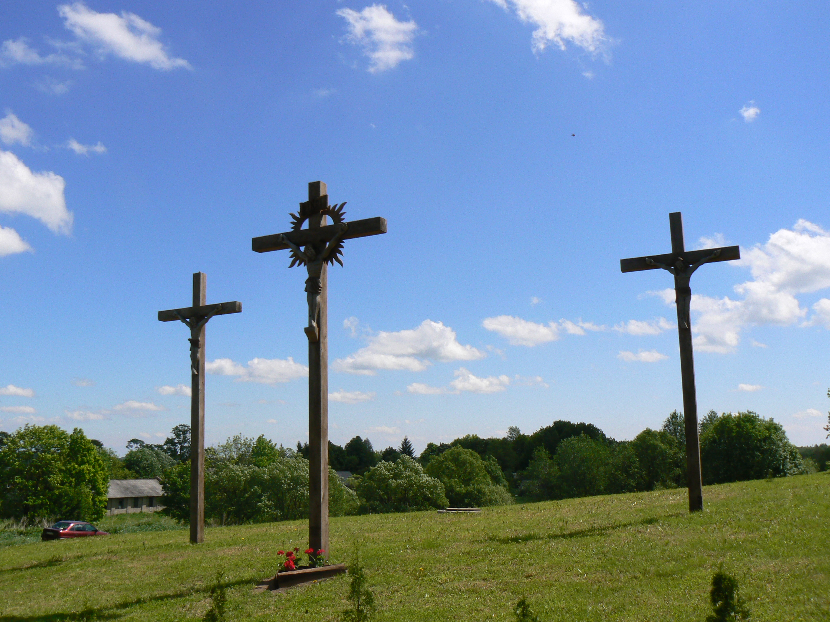 3 crosses in Varsėdžiai. Česky: Tři kříže před farou kostela Svatého Roka ve Varsėdžiajích.